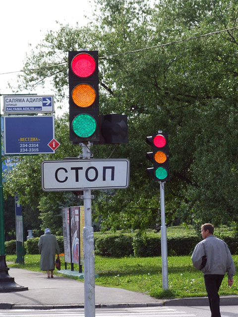 Traffic signals